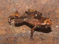 Anurans from the RPPN Serra Bonita, Bahia State, Northeastern Brazil. a Brachycephalus pulex b Ischnocnema verrucosa c Ischnocnema sp. 1 (gr. parva) d Rhinella crucifer e R. granulosa f Vitreorana eurygnatha g V. uranoscopa h Haddadus binotatus i “Eleutherodactylus” bilineatus j Pristimantis sp. 1 l P. vinhai m Adelophryne sp. n Gastrotheca pulchra o Aplastodiscus ibirapitanga; and p A. cf. weygoldti.